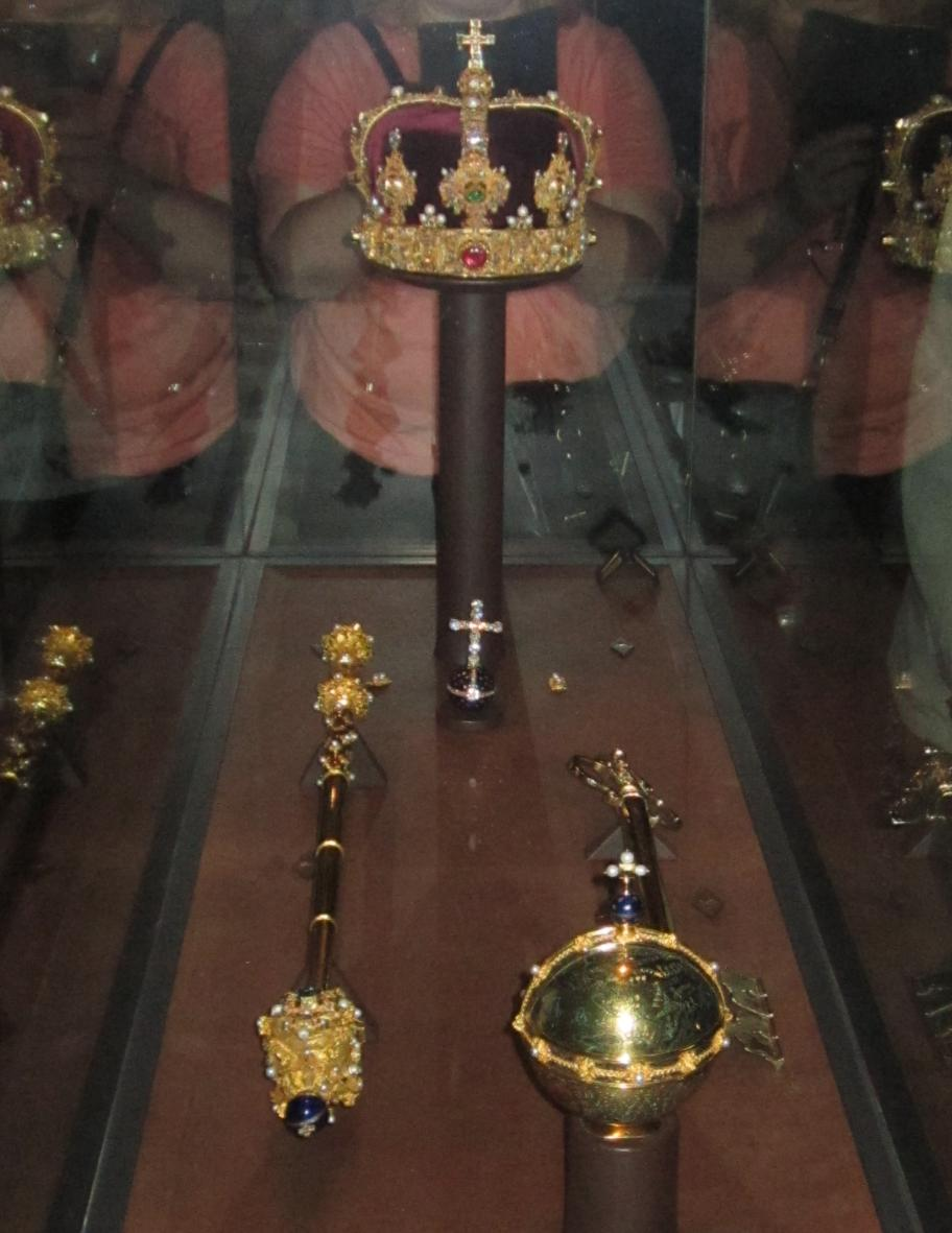 Crown, Sceptre and Orb of the King of Sweden (and other jewelry) as shown to public on National DayPlace: Royal Treasury, Stockholm Palace, Sweden